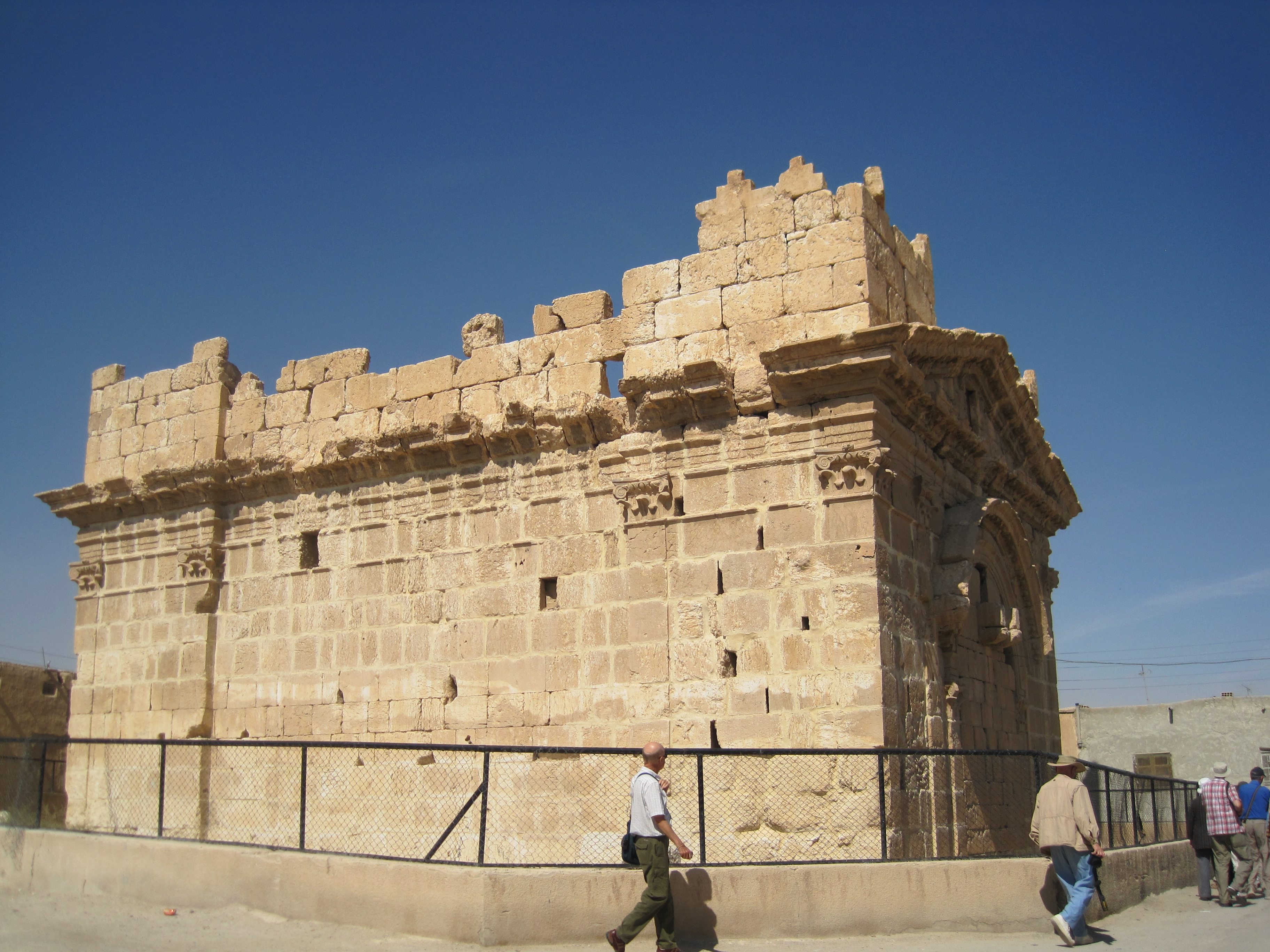 Third century Roman temple of Zeus Hypsistos, Dumeir, Syria